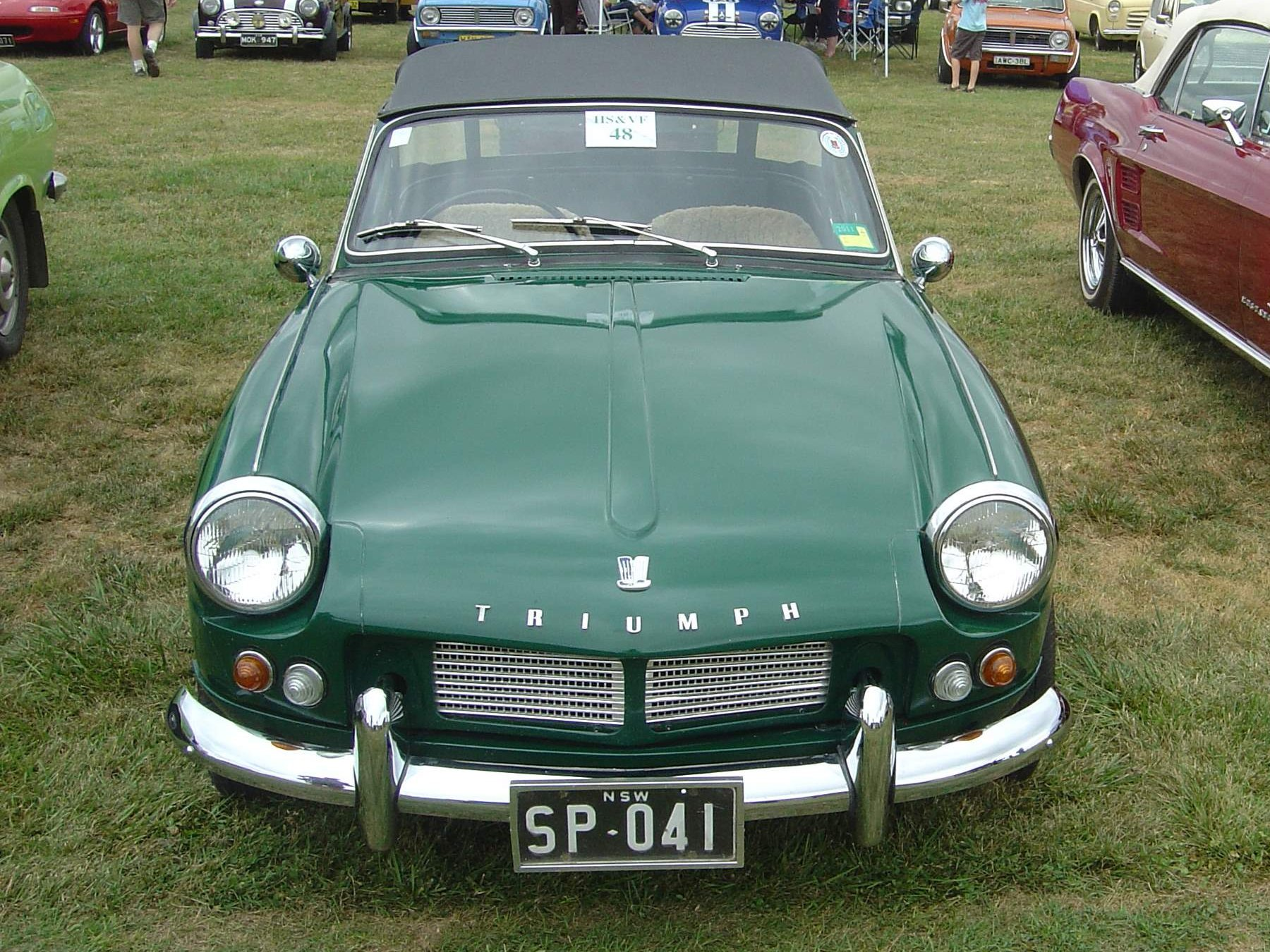 Triumph Spitfire4 (Mk 1) Highlands Steam & Vintage Fair 2011 DSC03103